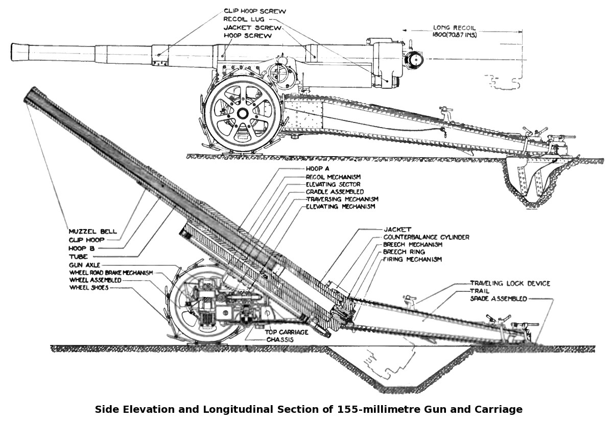 Longitudinal section and left elevation of 155 mm GPF gun, US Army service.